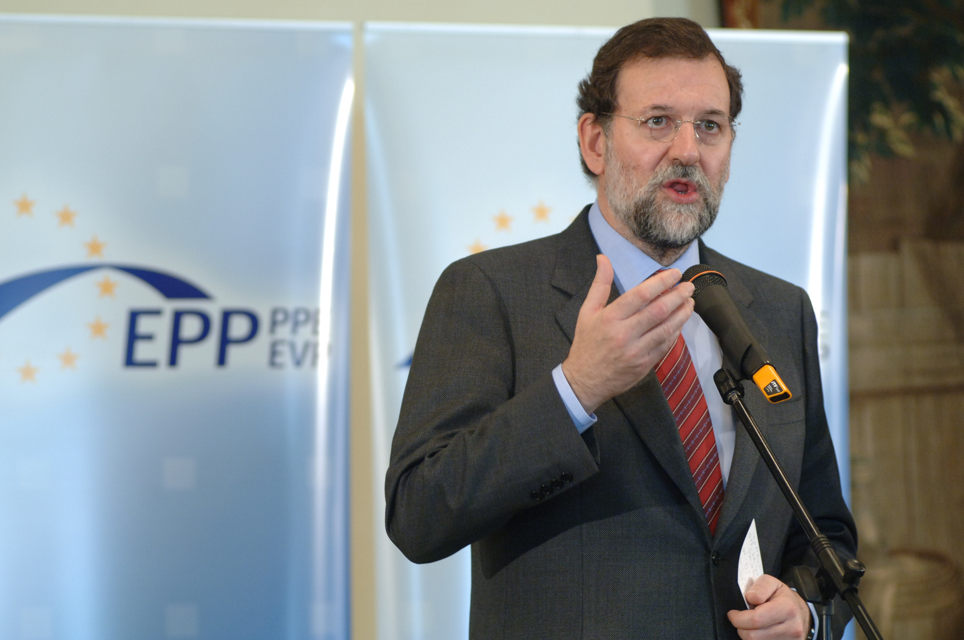 EPP Congress Rome 2006